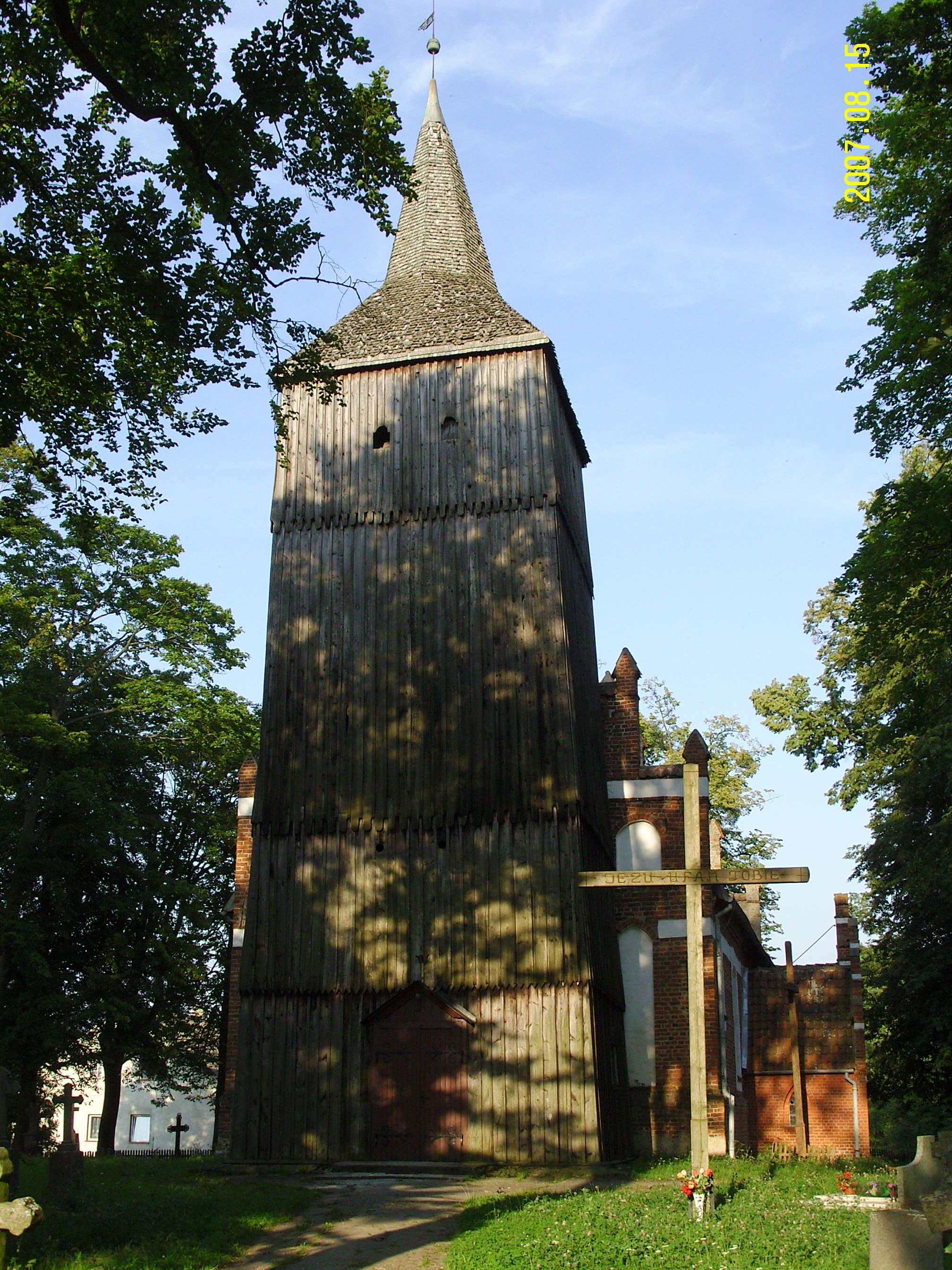 Saint Matthew church in Różynka, Poland